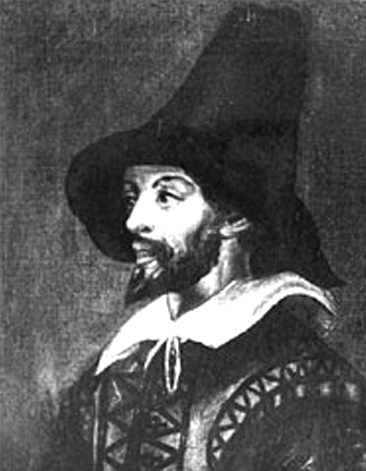 An older portrait of Guy Fawkes (1570–1606) from an unknown year by an unknown artist.